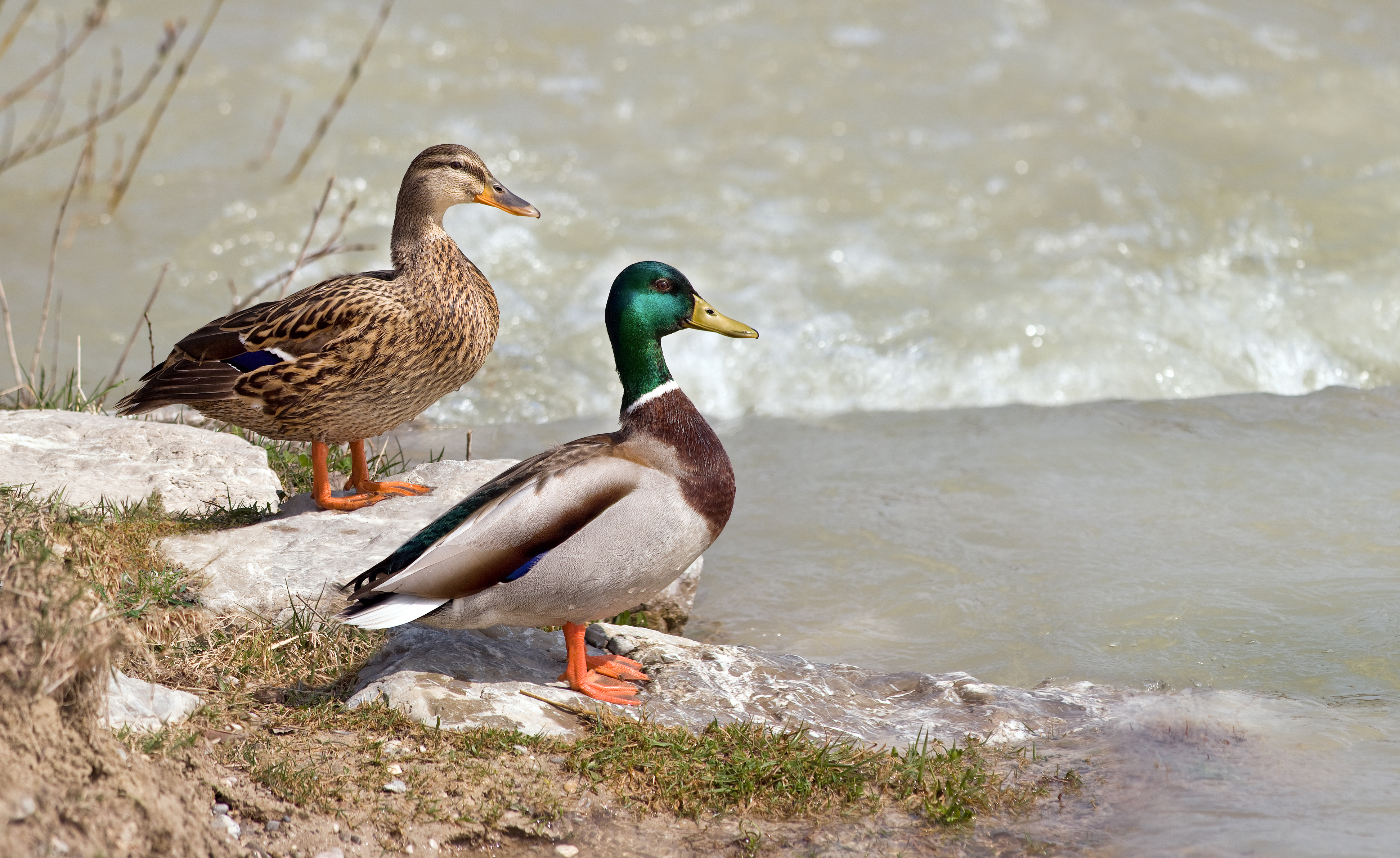 A Mallard pair at Mühlthal, Straßlach-Dingharting, Germany. The Mallard is the archetypal "wild duck" and probably the best-known of all ducks, is a dabbling duck which breeds throughout the temperate areas of Europe, Asia, and North America; it is also introduced in New Zealand and Australia.